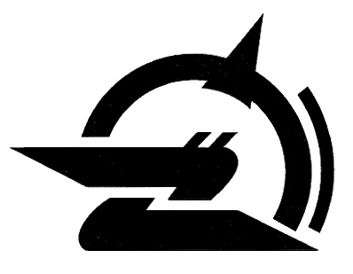 Goka Ibaraki chapter